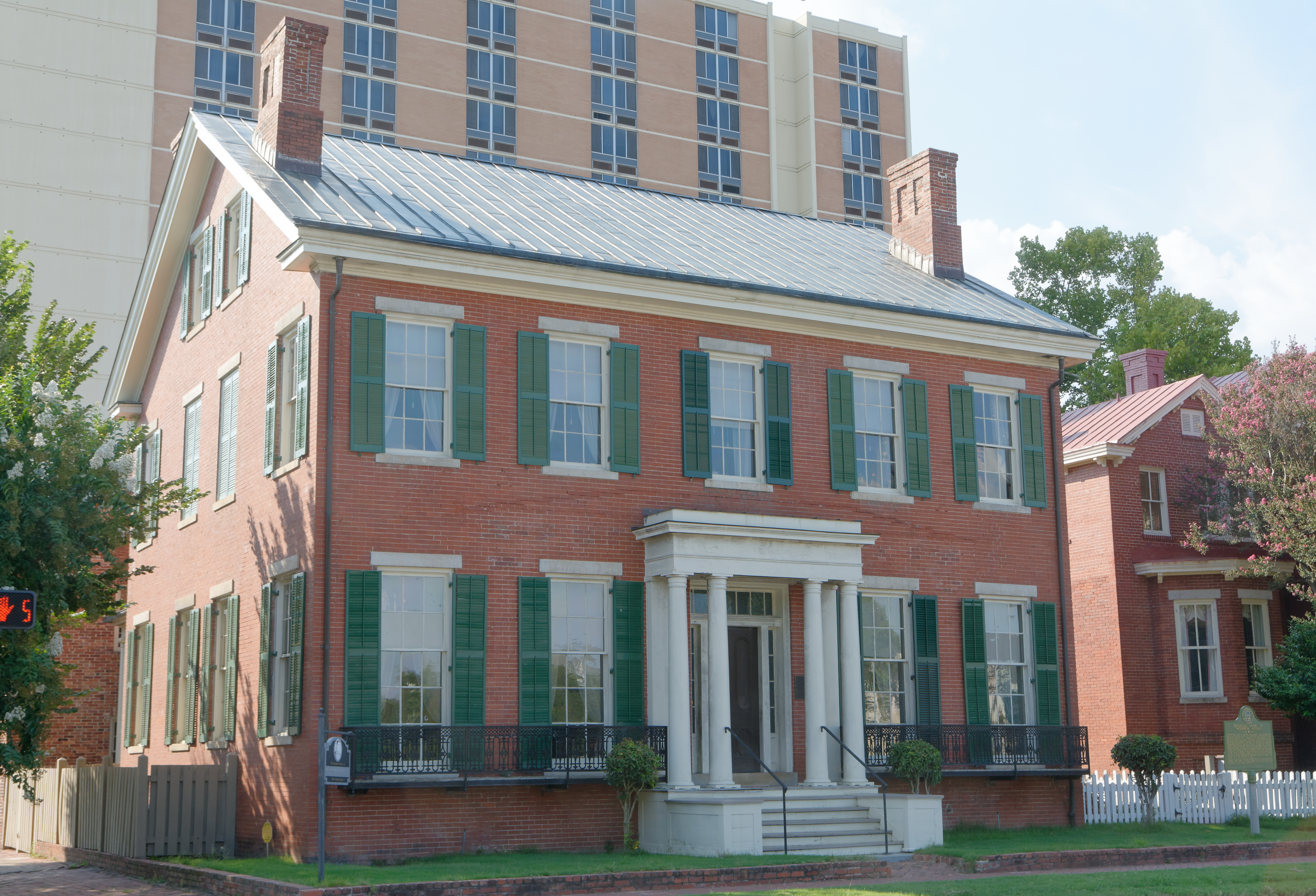 Woodrow Wilson Boyhood Home, 419 7th St. Augusta, Georgia, US Also a National Historic Monument